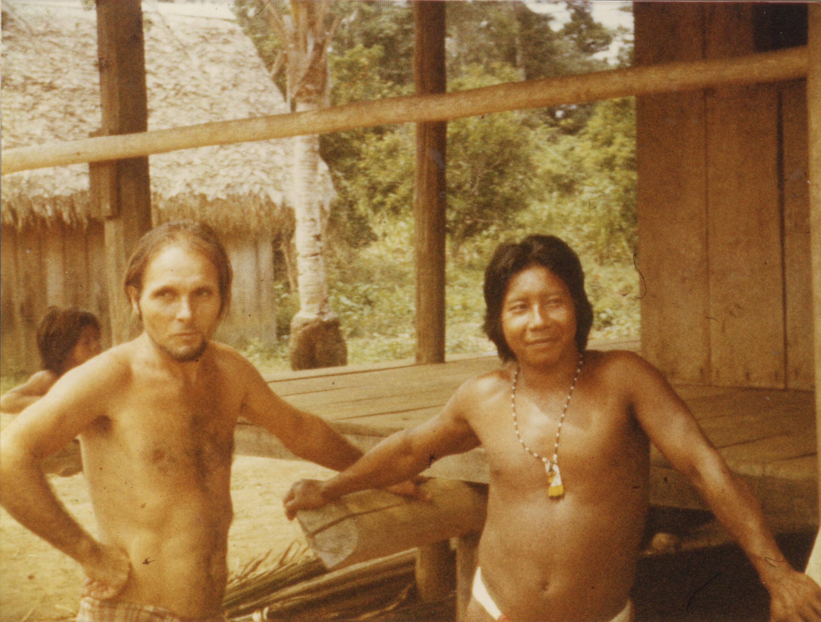 Photo taken in 1979.